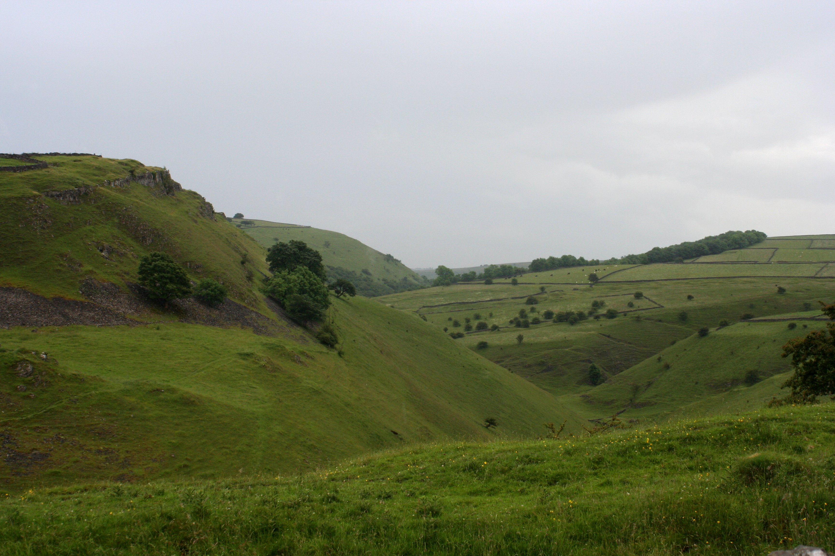 Cressbrook Dale National Nature Reserve, a Site of Special Scientific Interest, near Tideswell, Derbyshire, England.